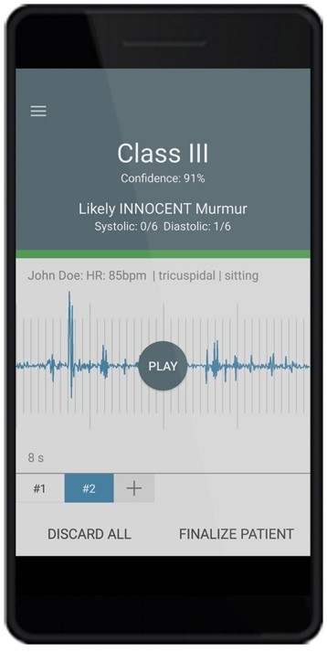 Screen of the eMurmur computer aided auscultation system